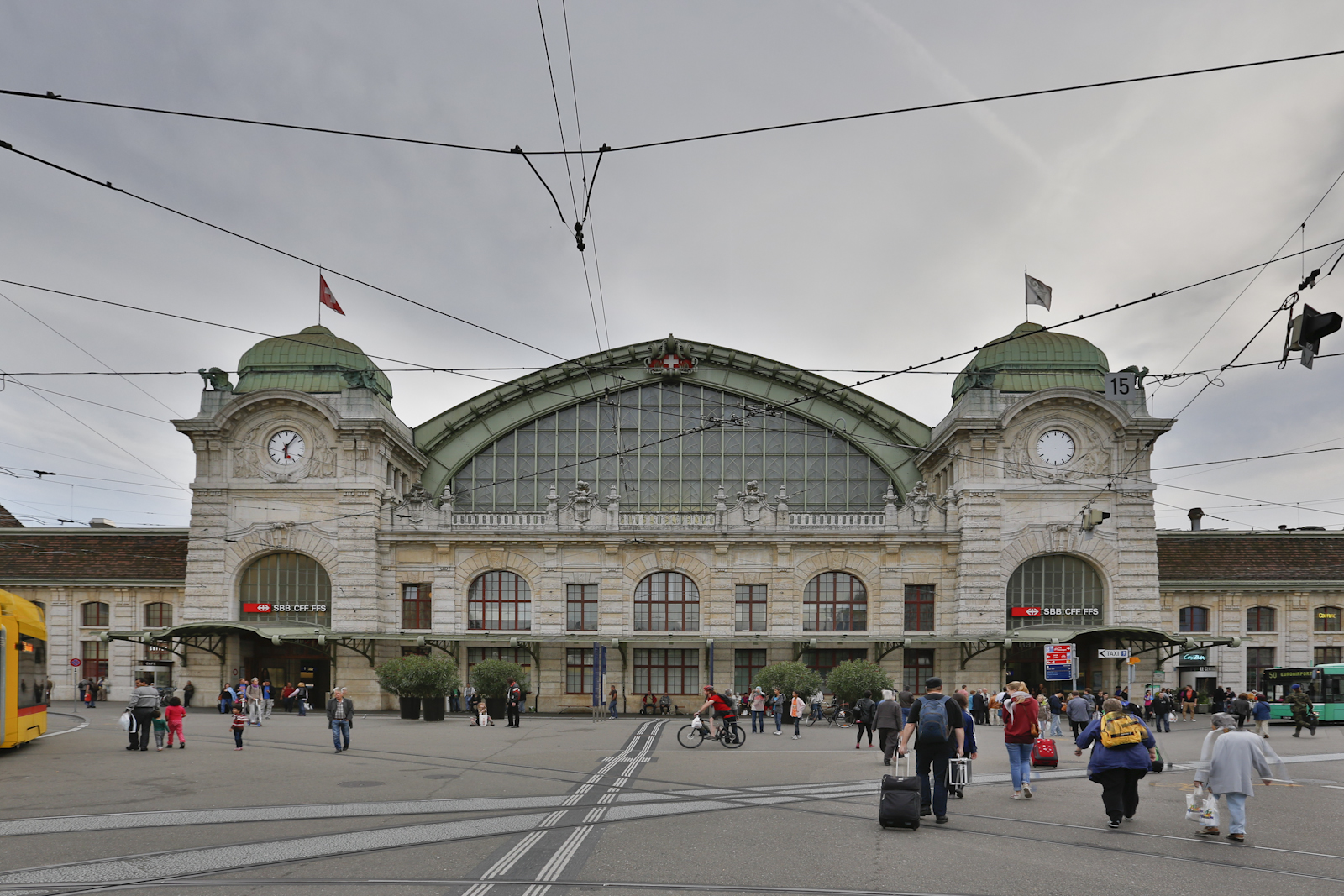 Basel